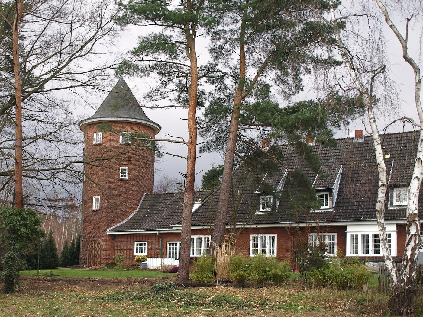 Geesthacht (Schleswig-Holstein, Germany), water tower of the railroad Bergedorf-Geesthacht, photo 2010